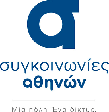 The new logo of the Athens Mass Urban Transport Organization: "Transport for Athens"